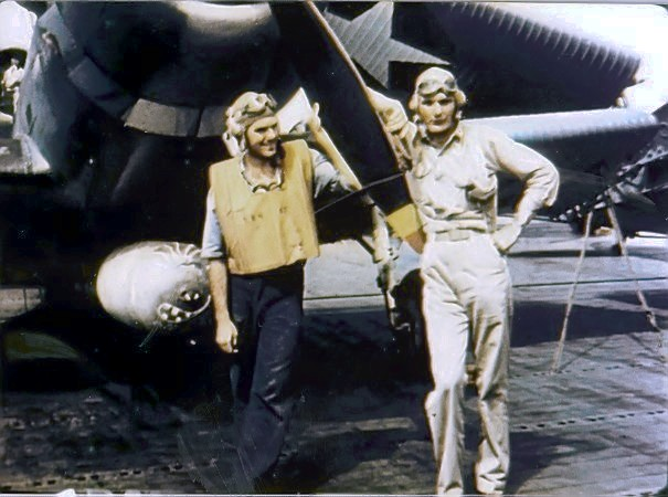 Ensign George Gay (right), sole survivor of VT-8 at Midway, standing beside his TBD Devastator on June 4, 1942 before the Battle of Midway. The other crewman pictured is one of his rear gunners.